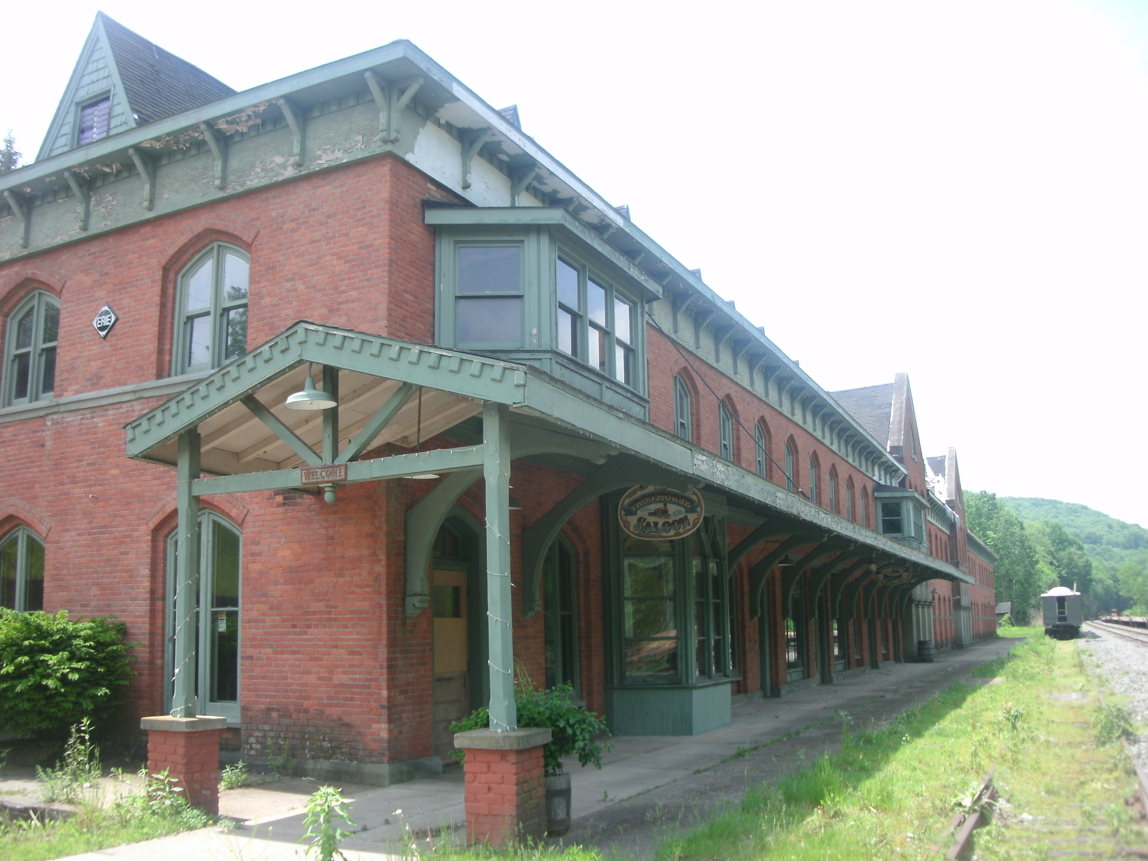 The Erie Railroad station in Susquehanna Depot, Pennsylvania viewed in May 2011, 41 years after the last passenger train stopped at the station. The station also included a large hotel called Starrucca House.